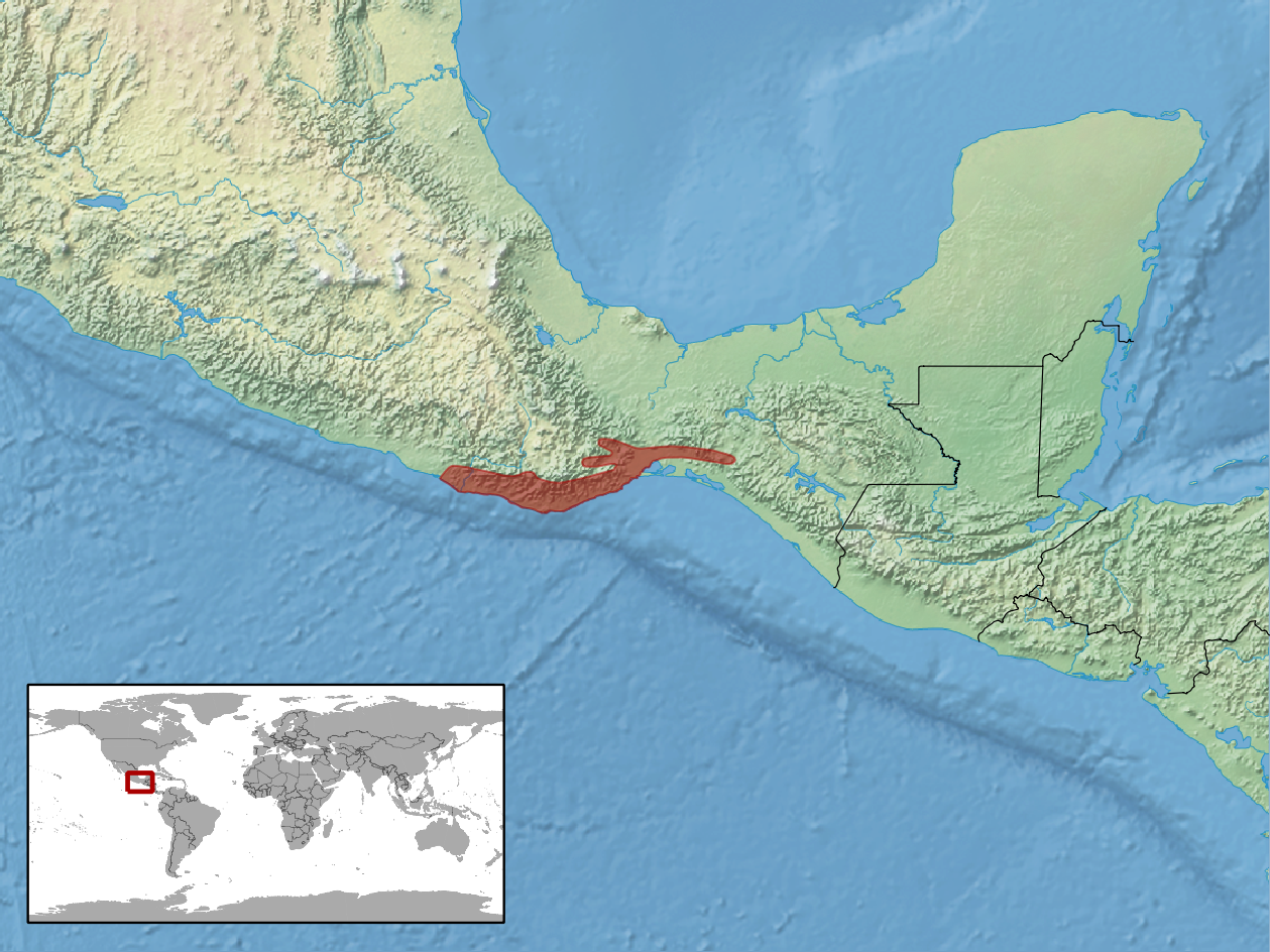 geographic distribution of Porthidium dunni (Native: Mexico)